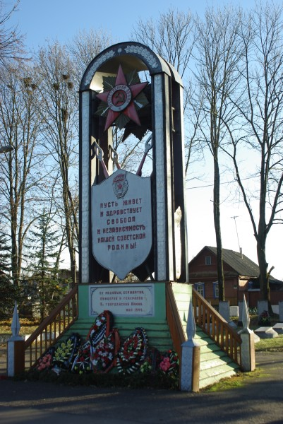 Monument to fallen soldiers (1944, wooden)